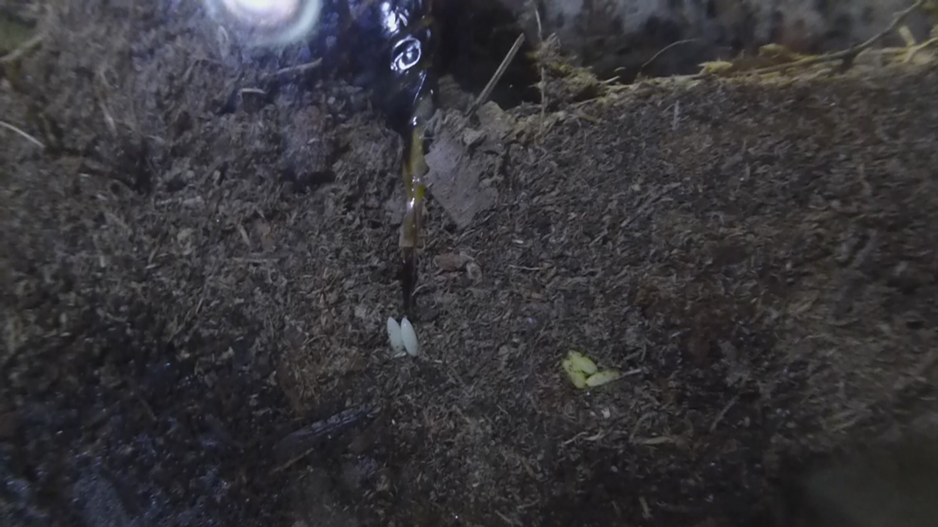 Prionus Laticollis with ovipositer extended laying eggs on July 18, 2017, 4:22pm